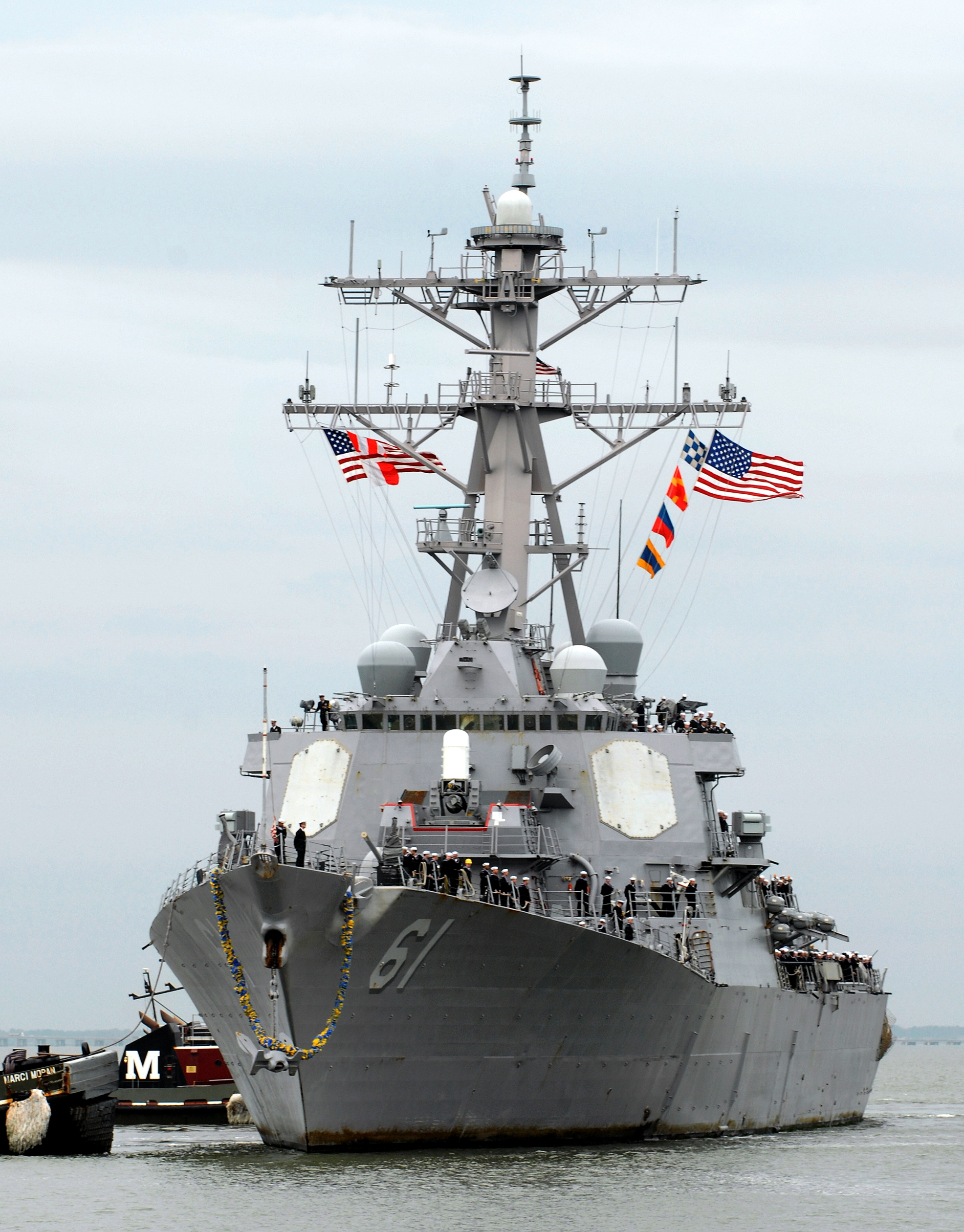 The guided-missile destroyer USS Ramage (DDG 61) returns to homeport at Naval Station Norfolk after a seven-month deployment.